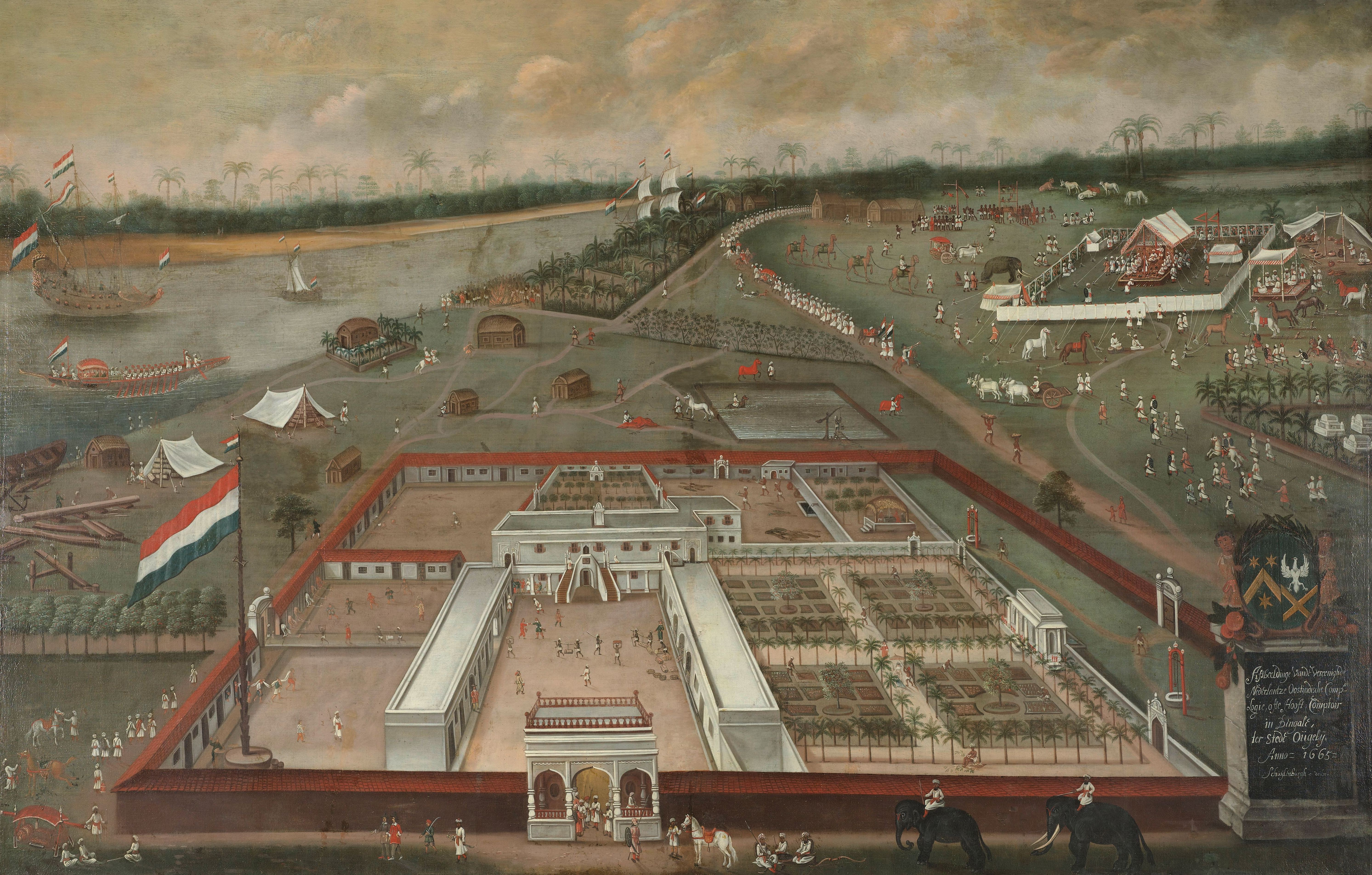 Trade lodge of the VOC in Hooghly, Bengal, by Hendrik van Schuylenbergh (ca. 1620–1689), oil on canvas, 1665. Left the river Ganges with a few ships. Above a long train of Indians is approaching, led by a Dutch trumpeter and banner carriers with Dutch flags, in the middle of the procession two Dutchmen let themselves be carried in a litter. To right of this is an encampment with an Indian dignitary in a tent, horses, cows, elephants and dromedaries. On the right side of the image a graveyard. Bottom right on a stele the marshaled arms of Pieter Sterthemius and Maria Calandrini.